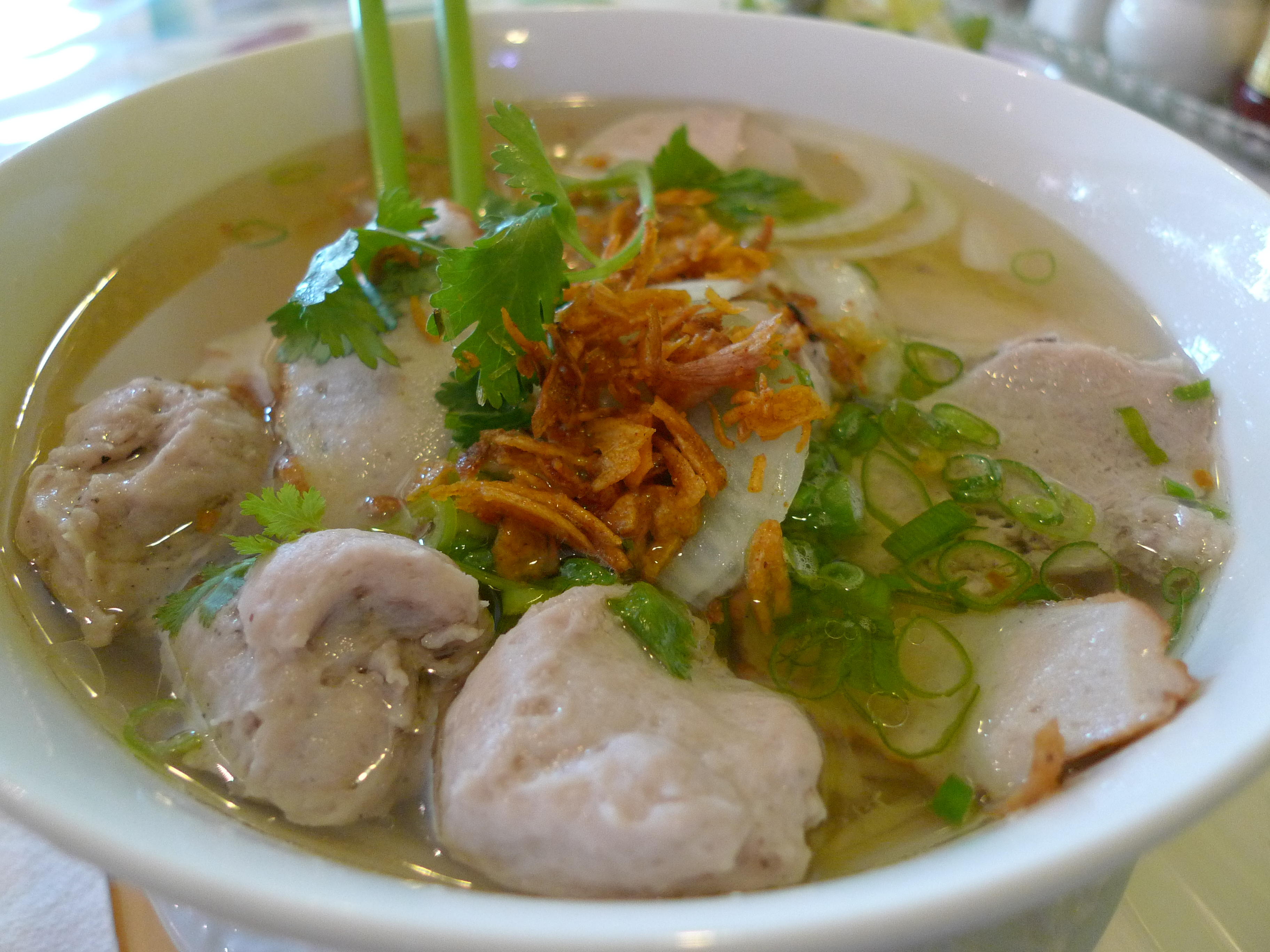 Pork Pepperball Soup